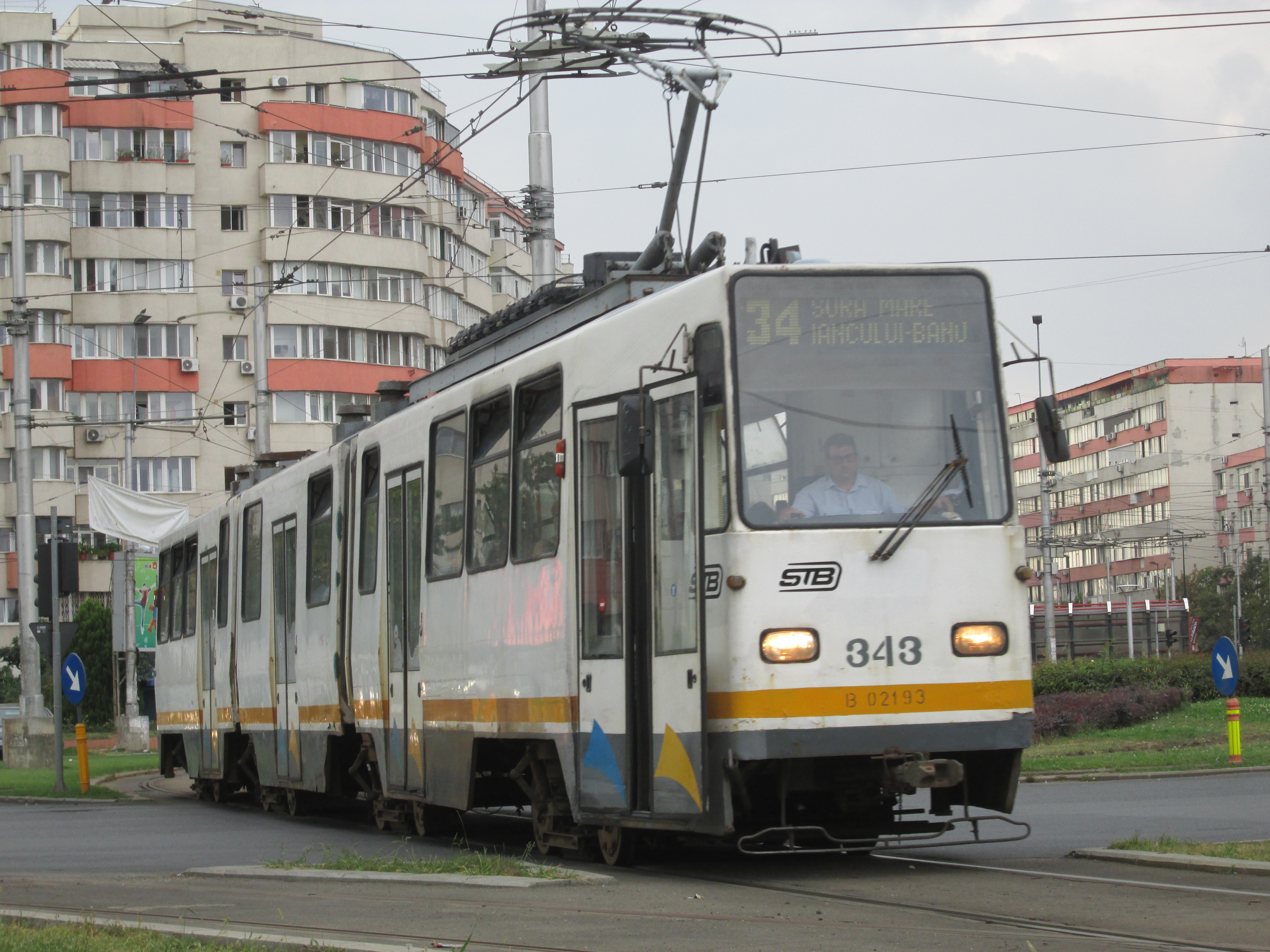 Tram number 343 (type V3A-93) of the STB (former RATB) on line 34 near Bucur Obor.